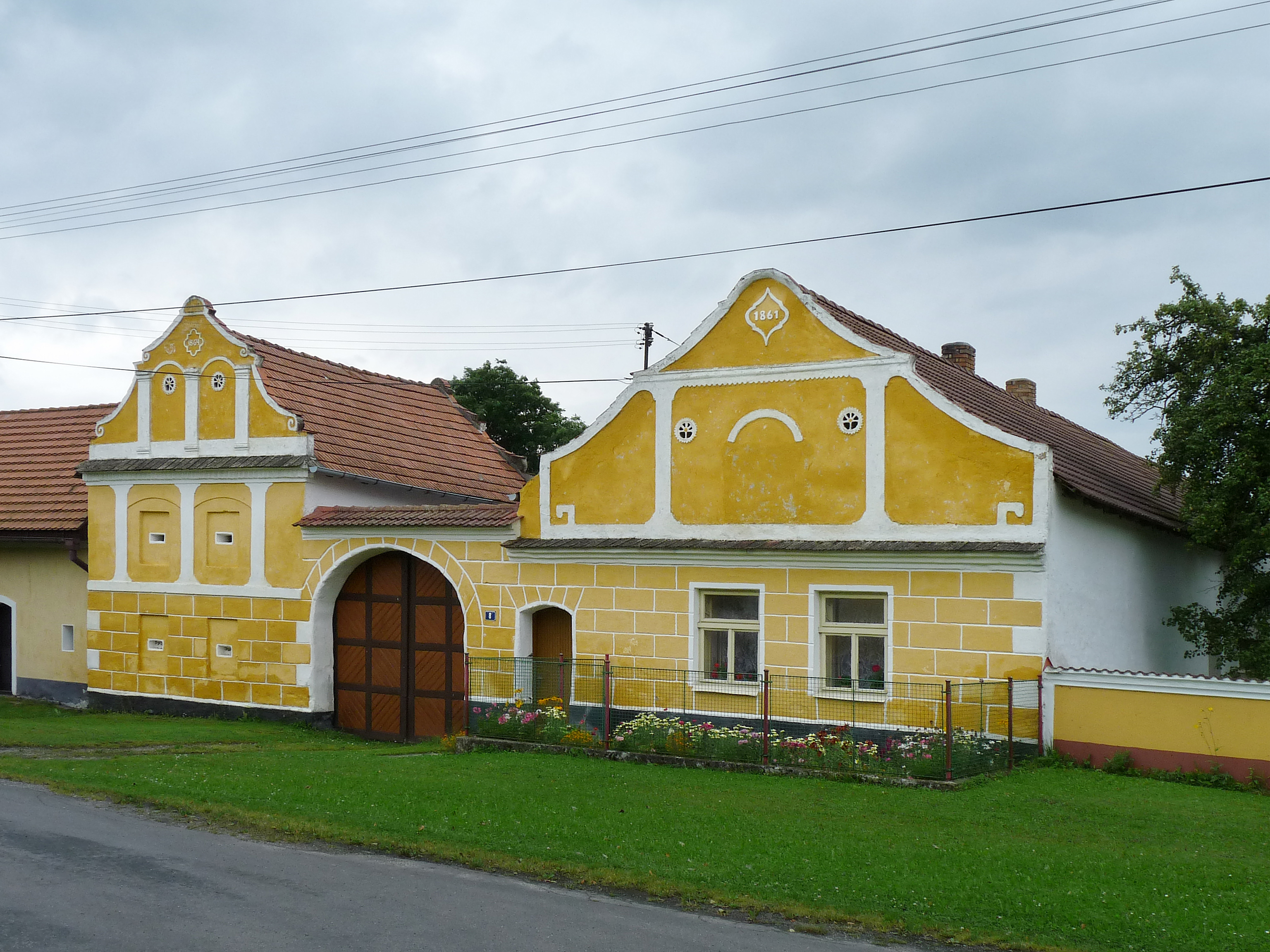 House No 8 in Komárov, Tábor district, Czech Republic